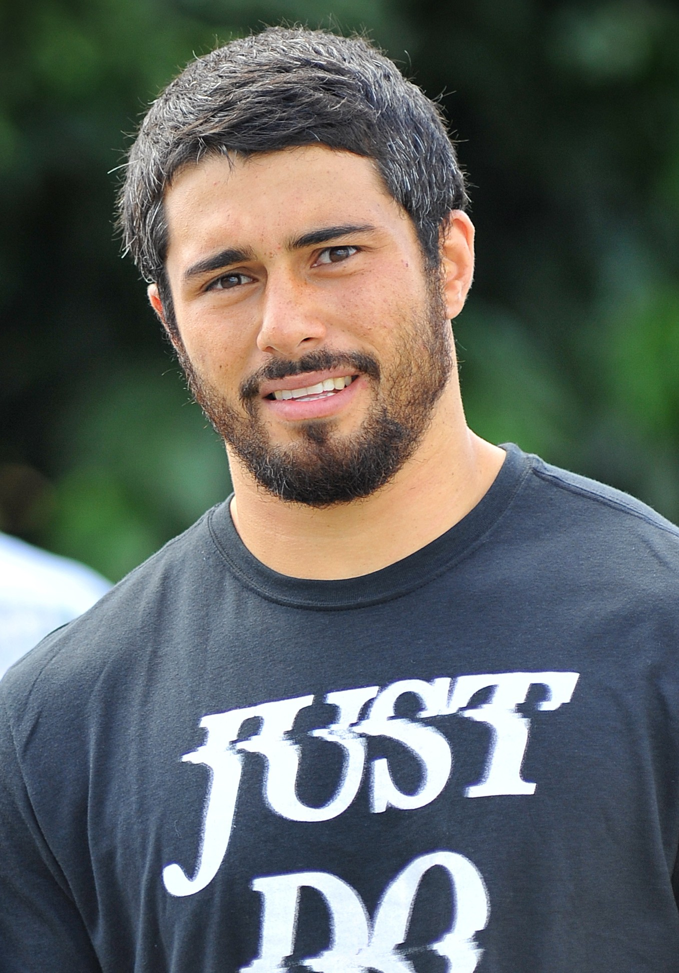 at training